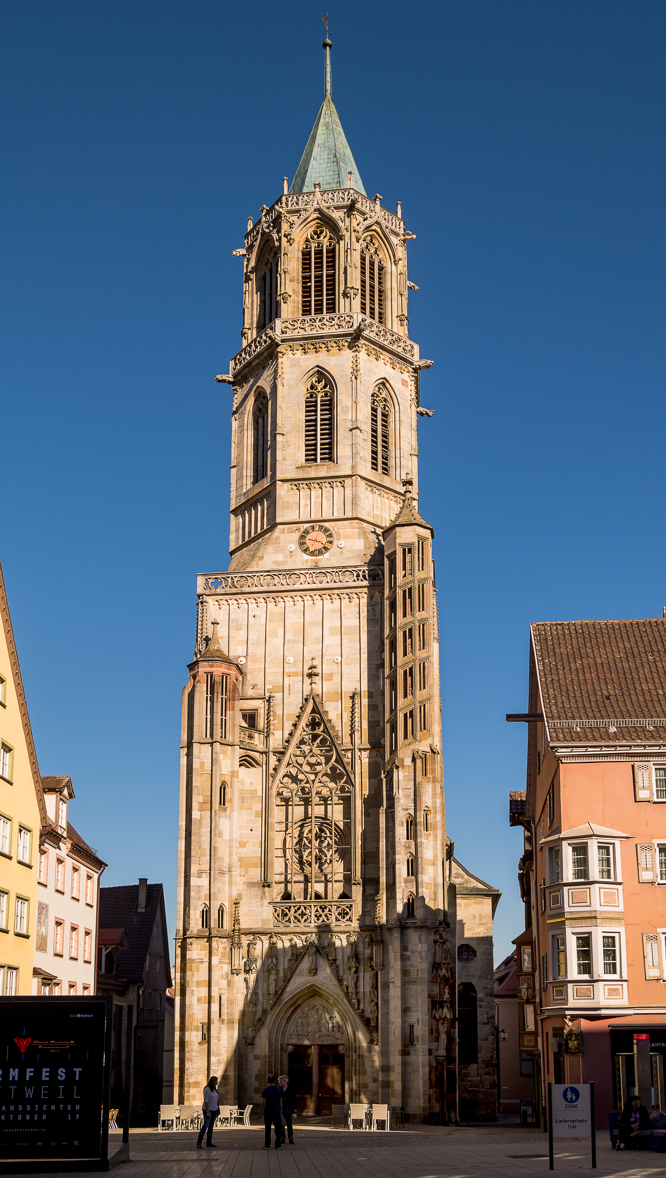 Rottweil, Kapellenkirche (Rottweil). Wikidata has entry Q1728499 with data related to this item.